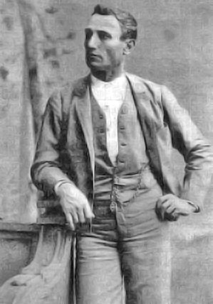 Portrait of Rafael Molina, bullfighter, died in 1900